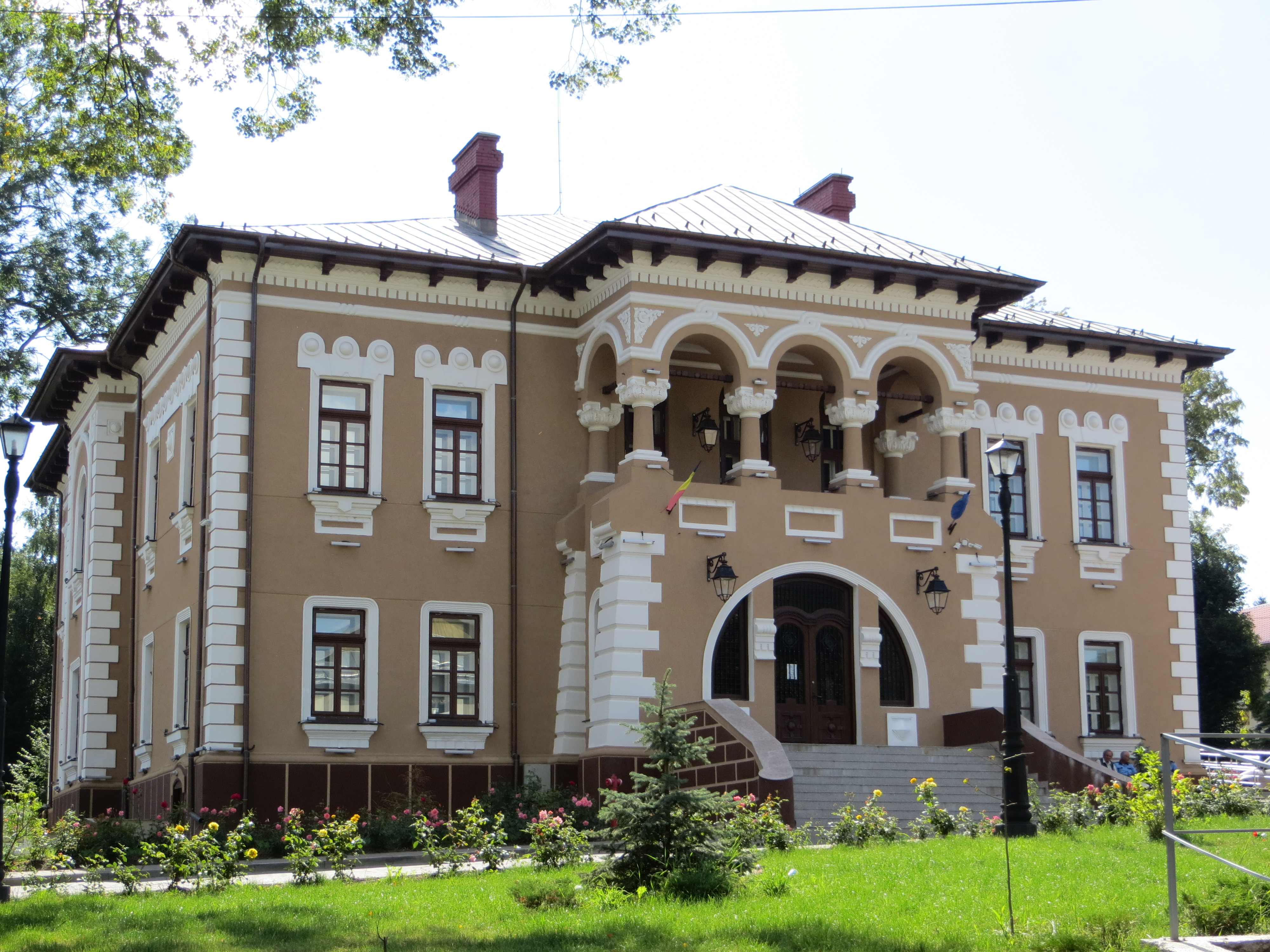 Ion Irimescu Art Museum, Fălticeni, Suceava County, Romania.